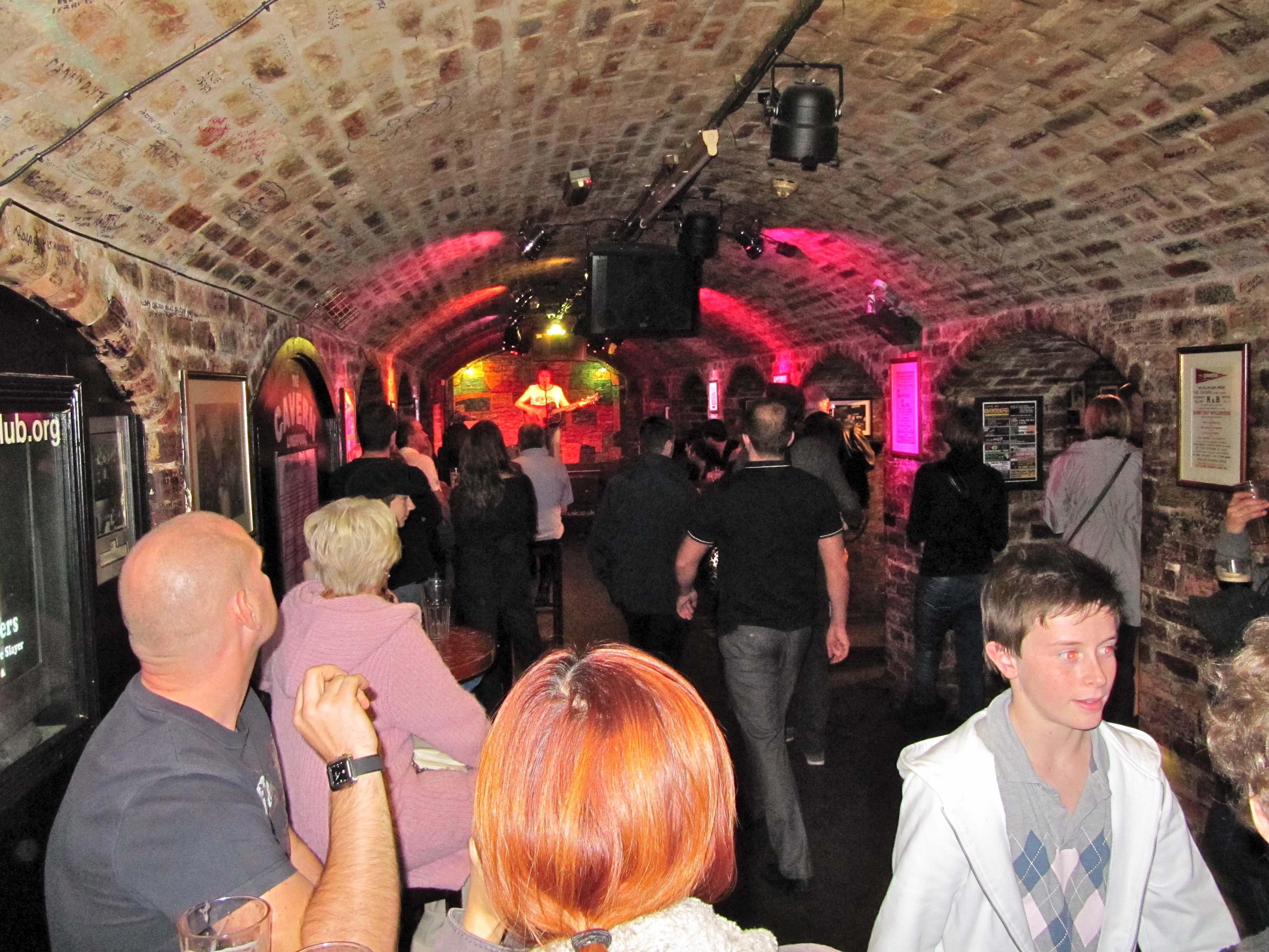 The Cavern of the Cavern Club